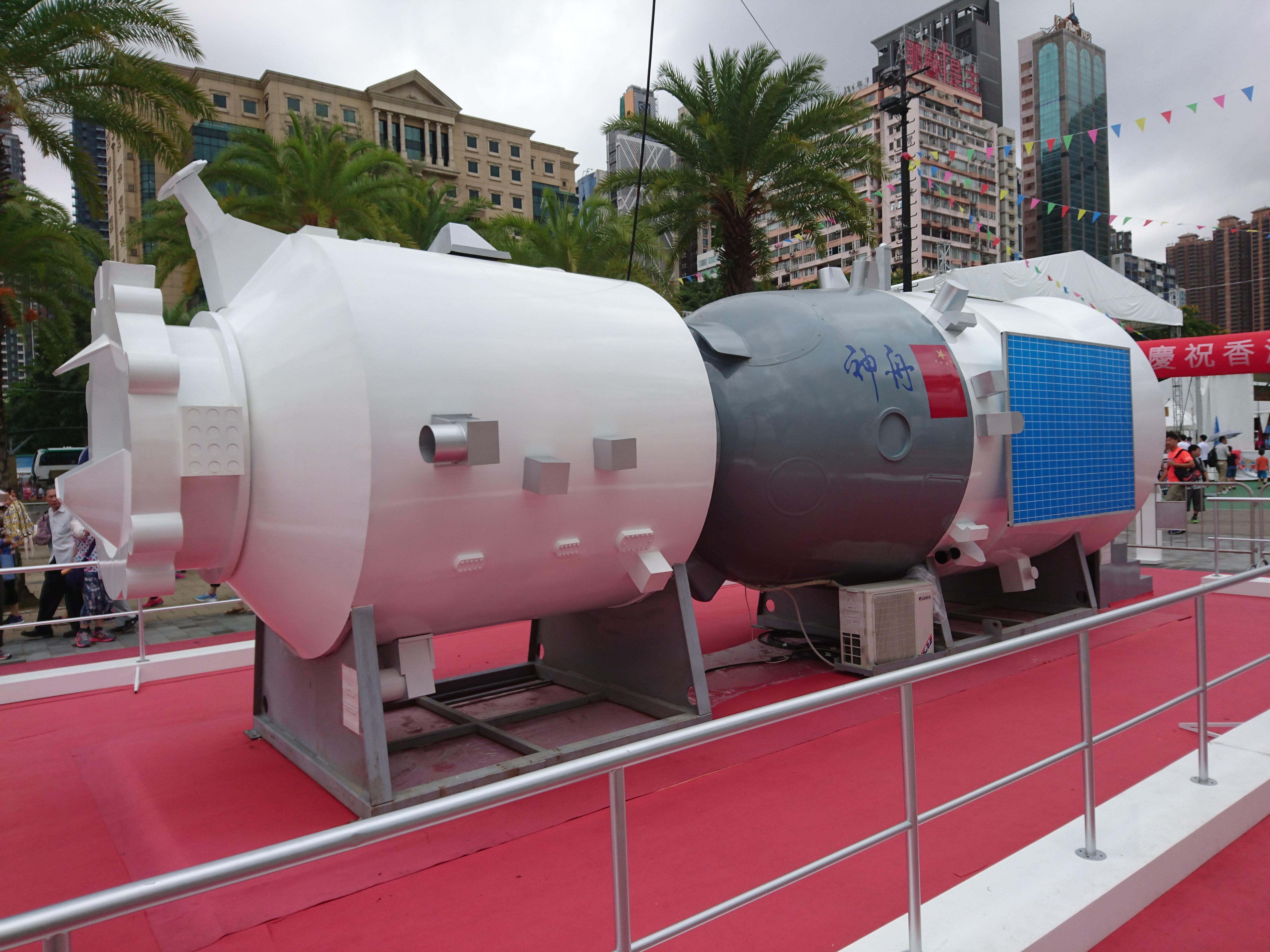 Shenzhou Spacecraft Reentry Module Model in Victoria Park, Hong Kong